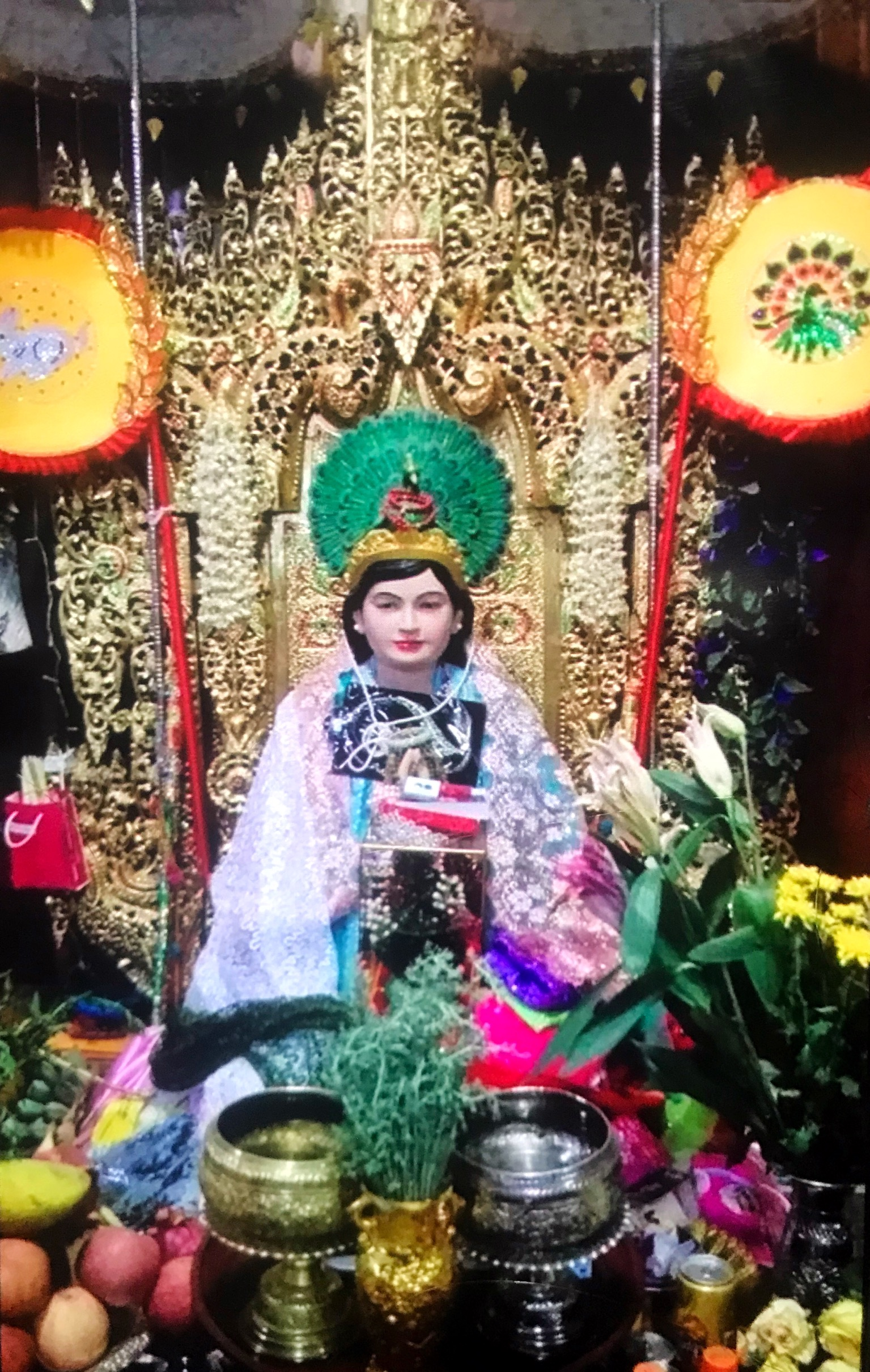 Queen Pan Htwar shrine in Pyay.